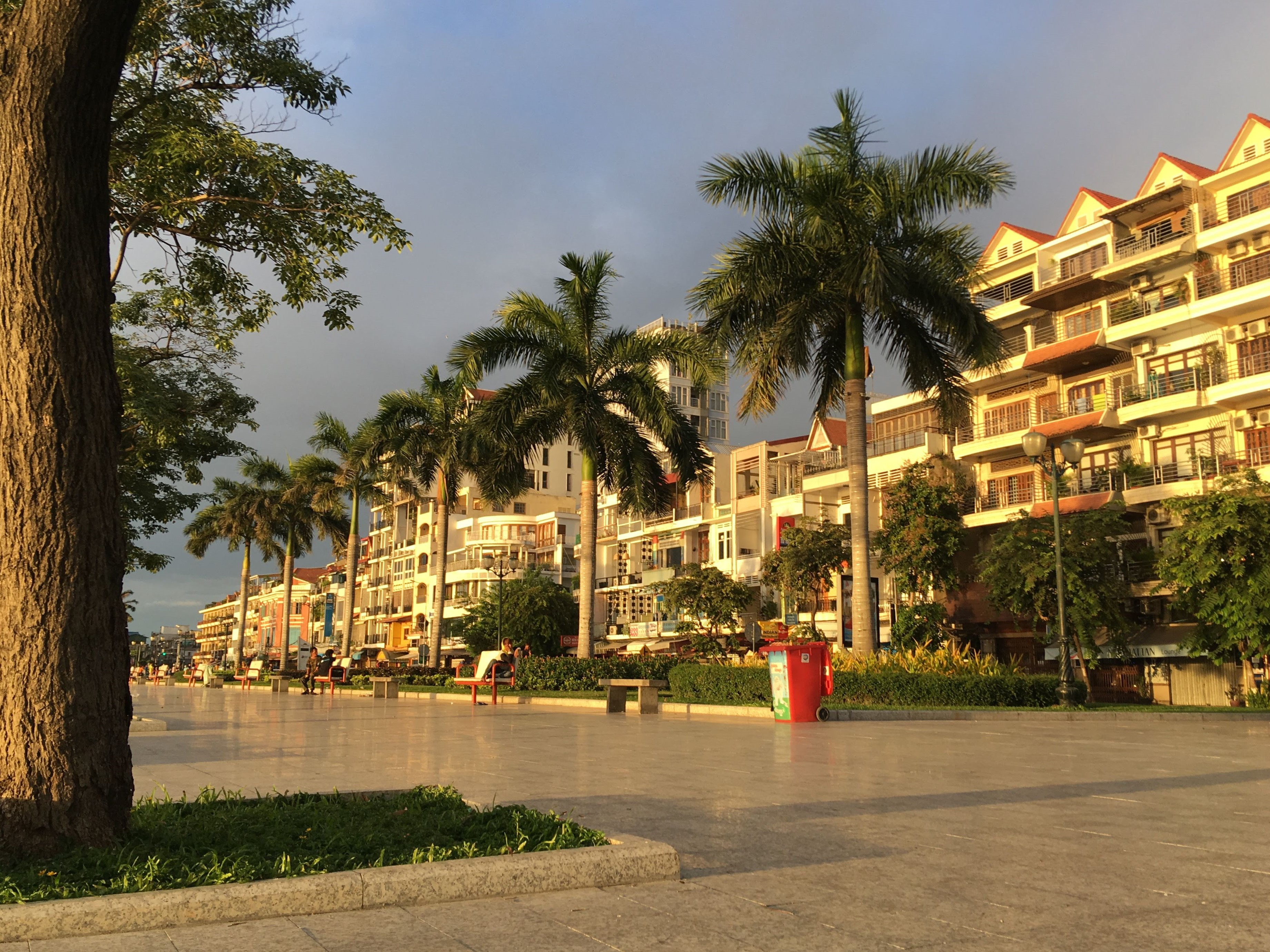 The Riverside Park in Phnom Penh, Cambodia.